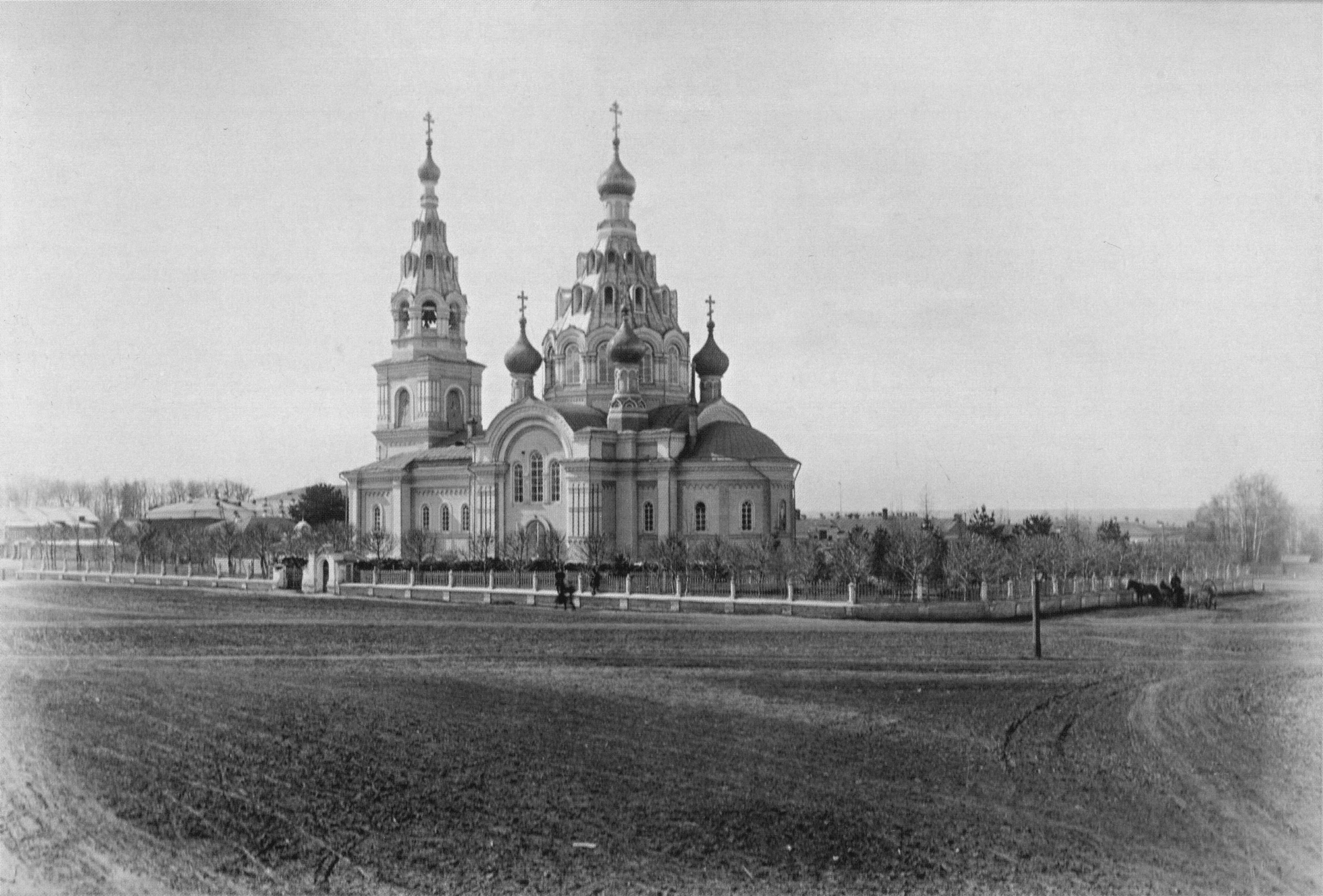 Resurrection Church in Perm